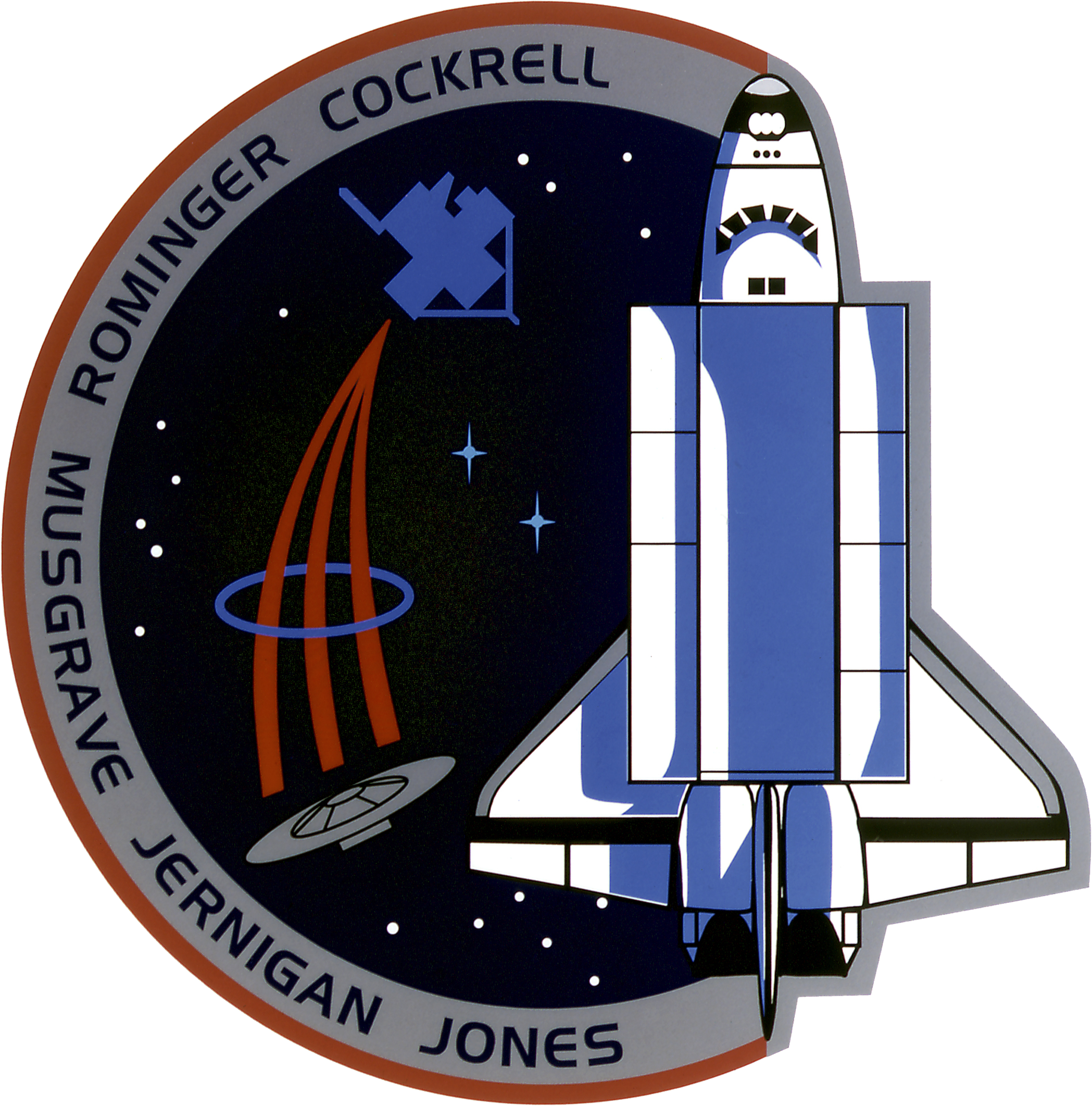 This mission patch for mission STS-80 depicts the Space Shuttle Columbia and the two research satellites its crew deployed into the blue field of space. The uppermost satellite is the Orbiting Retrievable Far and Extreme Ultraviolet Spectrograph-Shuttle Pallet Satellite (ORFEUS-SPAS), a telescope aimed at unraveling the life cycles of stars and understanding the gases that drift between them. The lower satellite is the Wake Shield Facility (WSF), flying for the third time. It will use the vacuum of space to create advanced semiconductors for the nation's electronics industry. ORFEUS and WSF are joined by the symbol of the Astronaut Corps, representing the human contribution to scientific progress in space. The two bright blue stars represent the mission's Extravehicular Activities (EVA), final rehearsals for techniques and tools to be used in assembly of the International Space Station (ISS). Surrounding Columbia is a constellation of 16 stars, one for each day of the mission, representing the stellar talents of the ground and flight teams that share the goal of expanding knowledge through a permanent human presence in space.